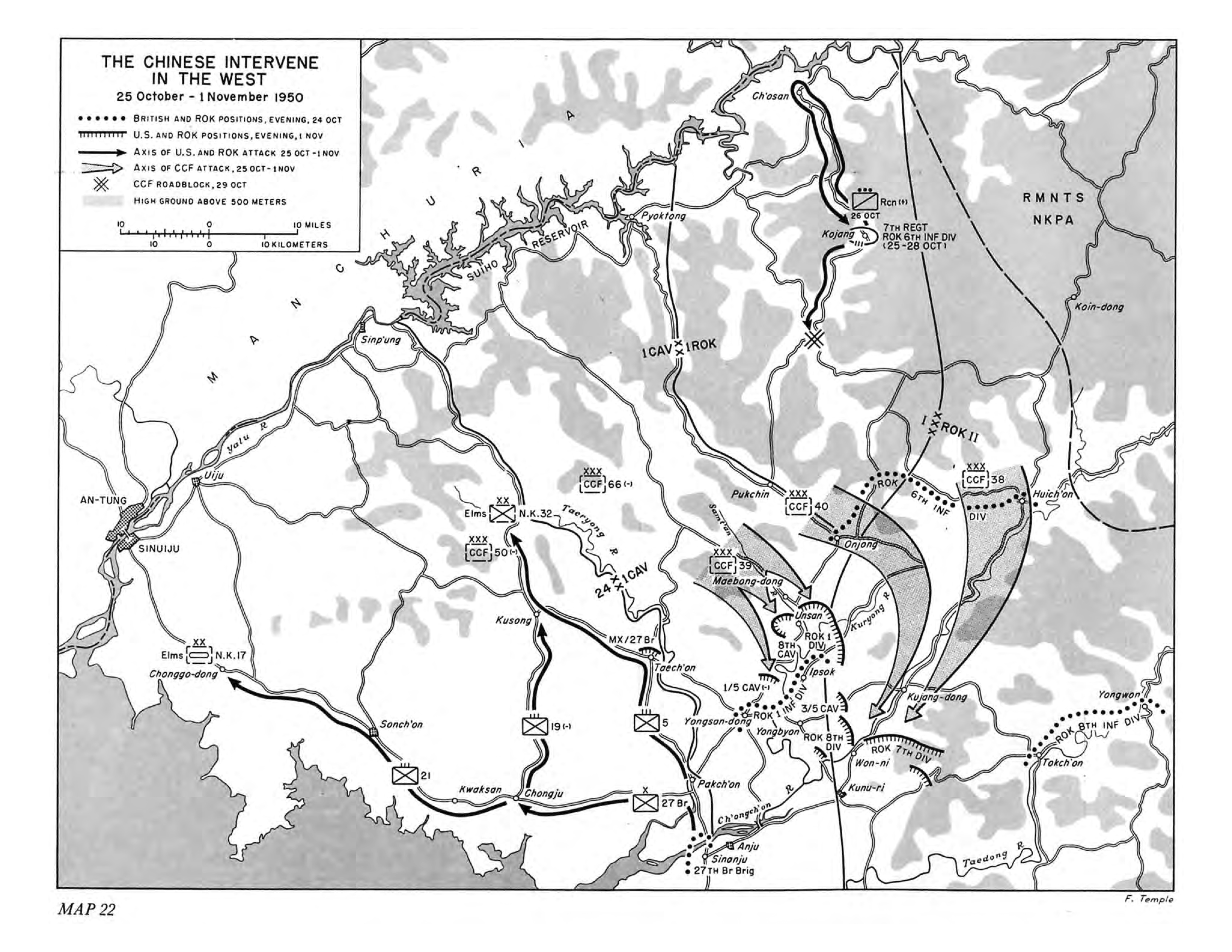 Map of Chinese intervention between October 25 to November 1, 1950